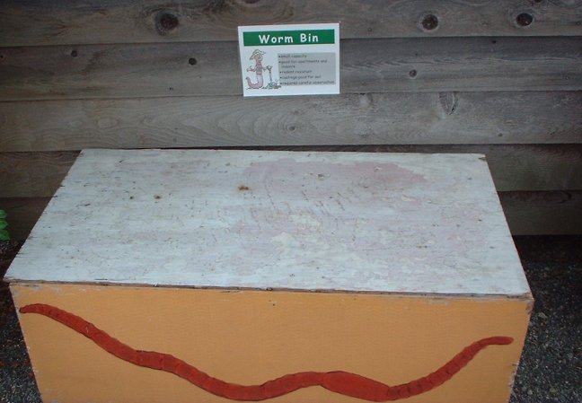 Worm bin display at community garden